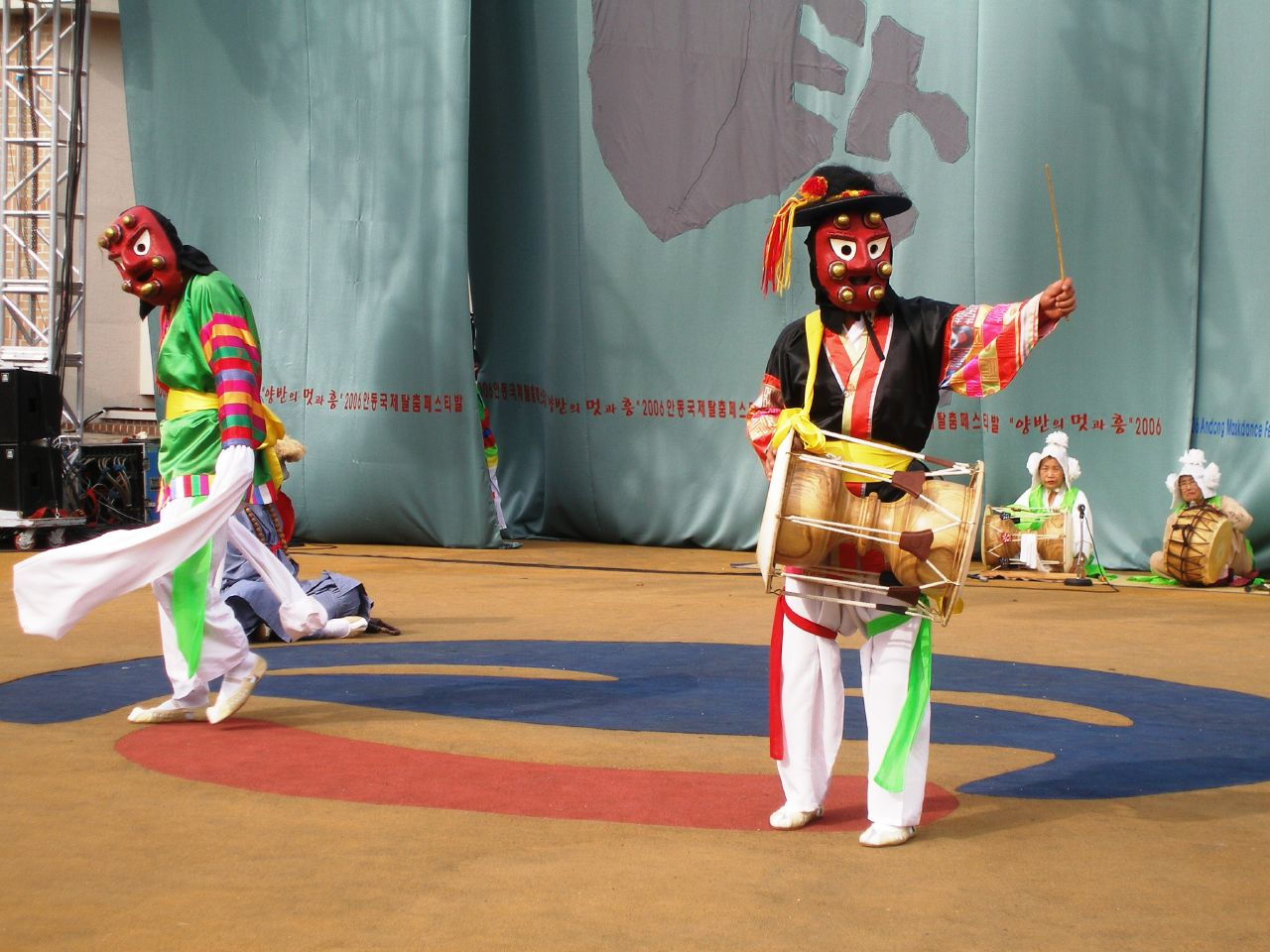 Eunyul talchum, a Korean mask dance originated in Eunyul, Hwanghae Province, now North Korea